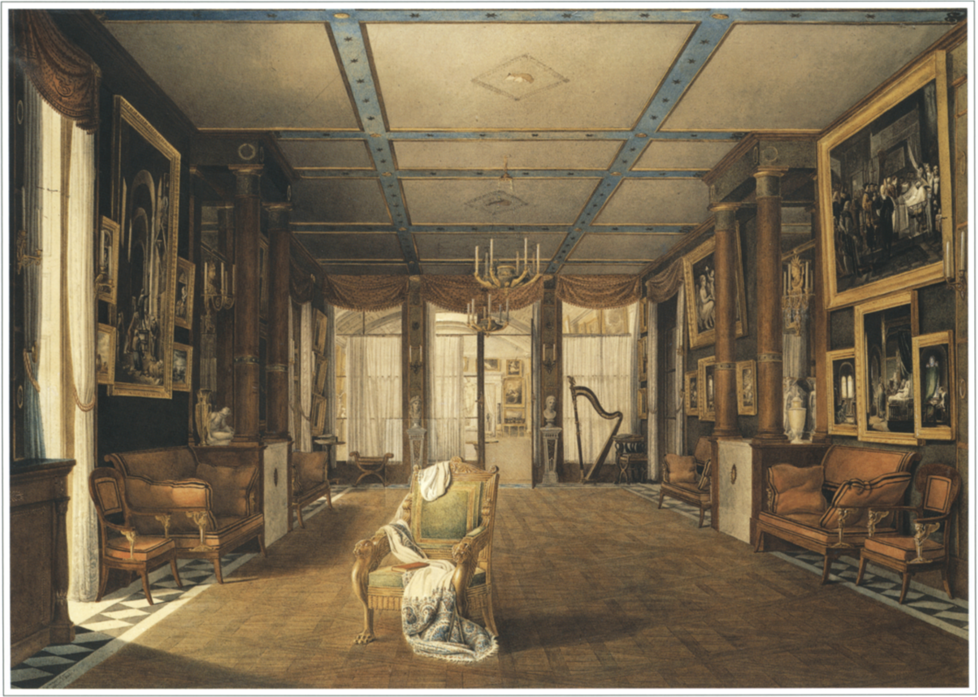 In Garnerey's painting, the furniture is shown covered in a deep red material wit h black passementerie, the same colour scheme as the studio furniture that Georges Jacob made for Jacques-Louis David just before 1789. They are of red wool with black palmettes copied from "Etruscan" vases, some of which can be glimpsed in Josephine’s art gallery just beyond. The room is illuminated by three black lustres(chandeliers), two of which are visible in the painting. These evoke the antique manner with gilt-bronze mounts by Martin-Eloi Lignereux (1752-1809). Four half-lights hang against the mirrors, and eight appliques (wall lights) are attached to pilasters framing the doors. Both doors and windows are hung with festoons harmonising with the seats and embellished with the monogram"J.B." In the foreground stands the empress's significant fauteuil in gilt wood with lion's-paw feet and heads inspired by Egypt or Assyria. The cashmere shawl draped over it implies that the owner has just stepped out of the room.